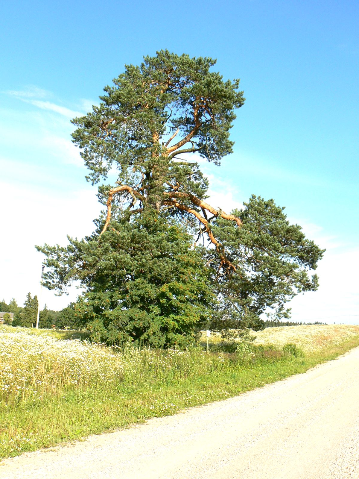 The Kraaviotsa pine in Estonia